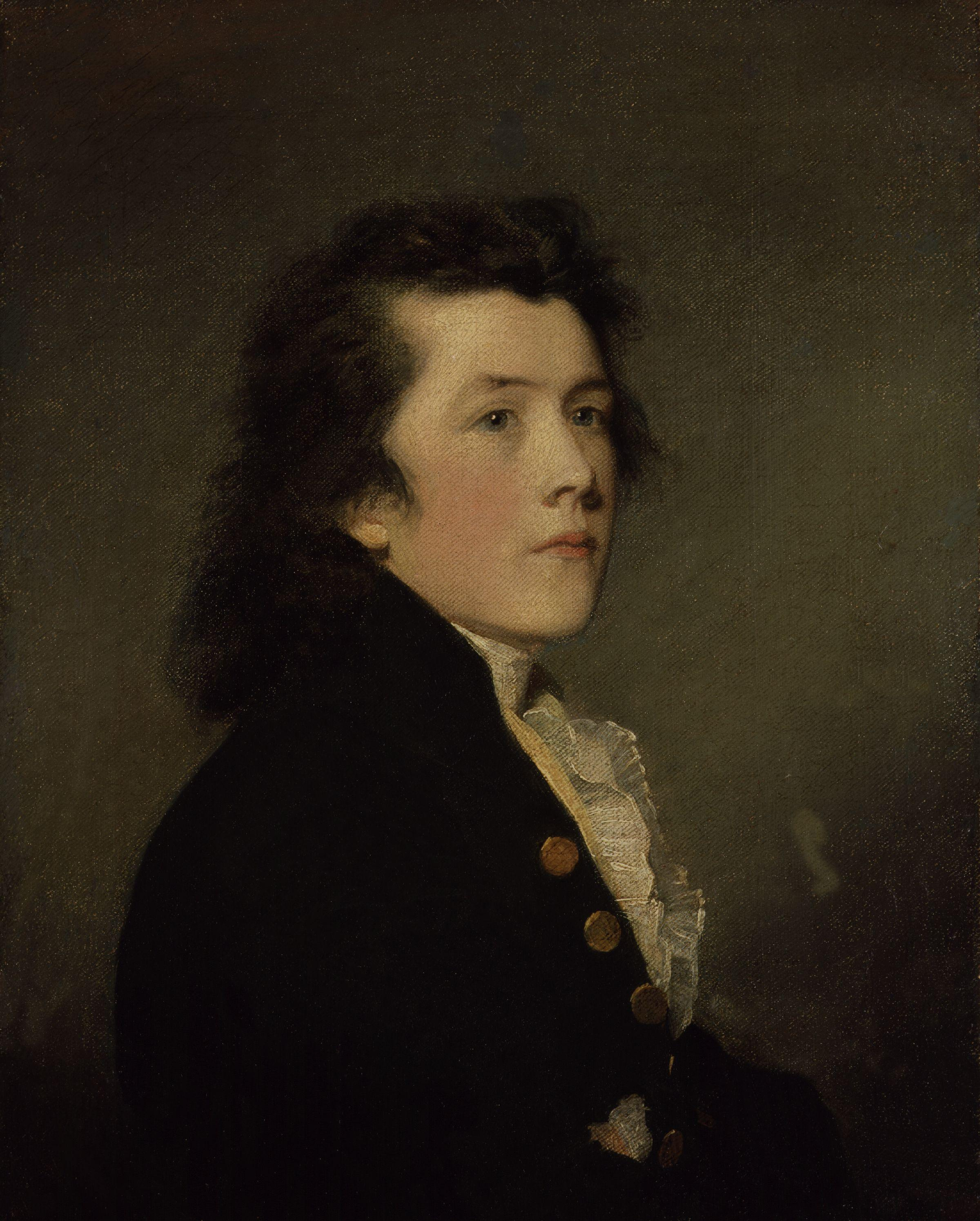 Amos Simon Cottle, by William Palmer (died 1790). All images in this batch have been confirmed as author died before 1939 according to the official death date listed by the NPG.